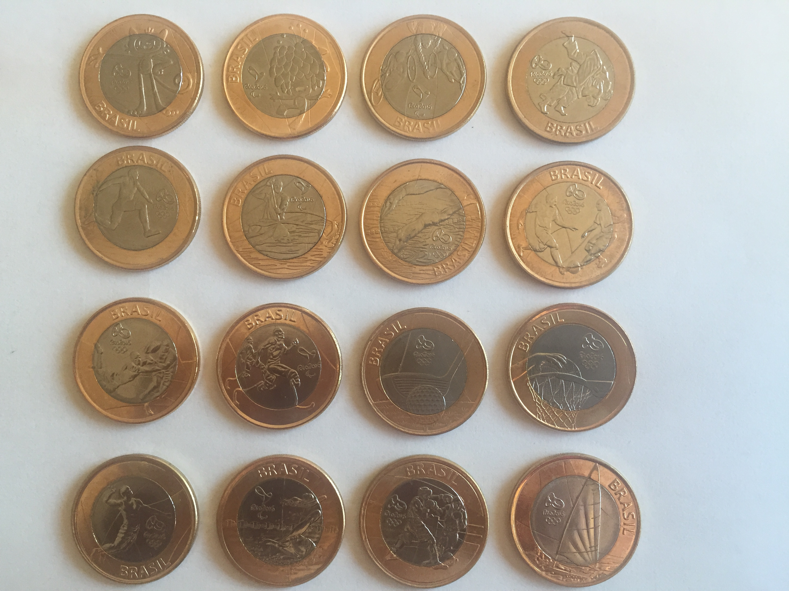 The 16 Sports 1 Real coins of the 2016 Summer Olympics and Paralympics